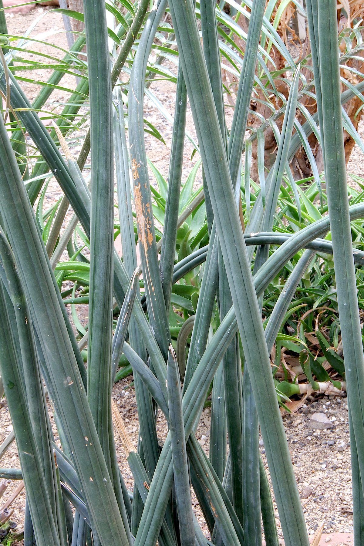 Sansevieria fischeri